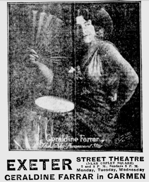 Advertisement for Exeter Street Theatre, Boston, Massachusetts, USA